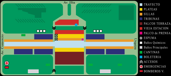 Plano Corsodromo Gualeguay